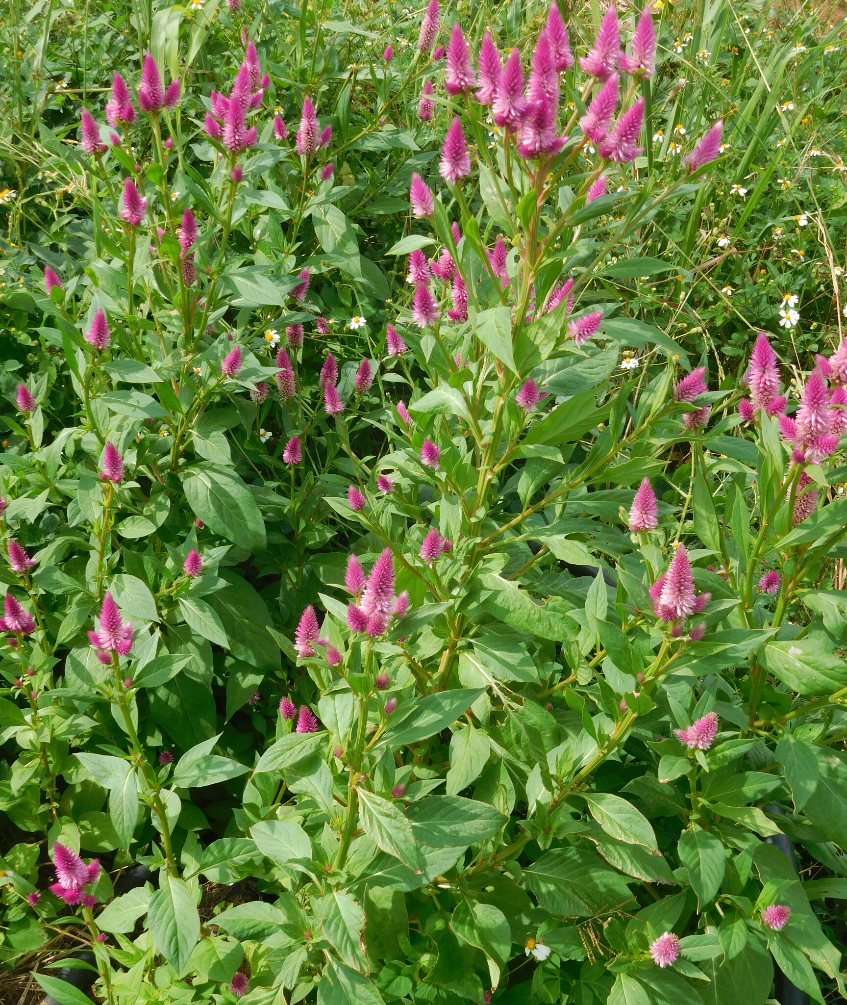 Plume cock's comb